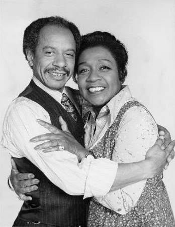 Publicity photo of American actors Sherman Hemsley and Isabel Sanford promoting their roles on the television series The Jeffersons.